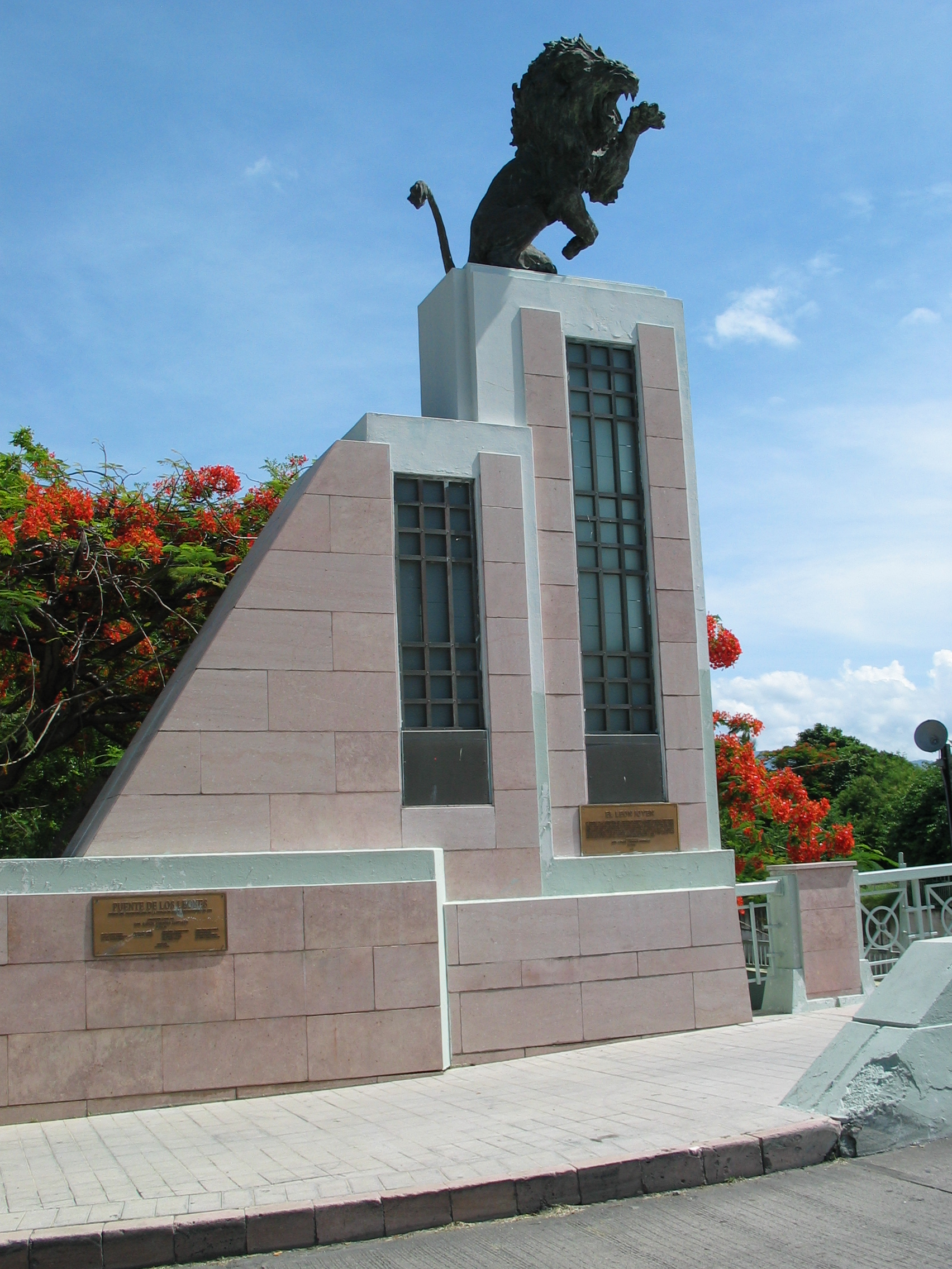 Leon Joven, Puente de los Leones, Barrio Tercero, Ponce, Puerto Rico, mirando hacia el este (IMG 3313)